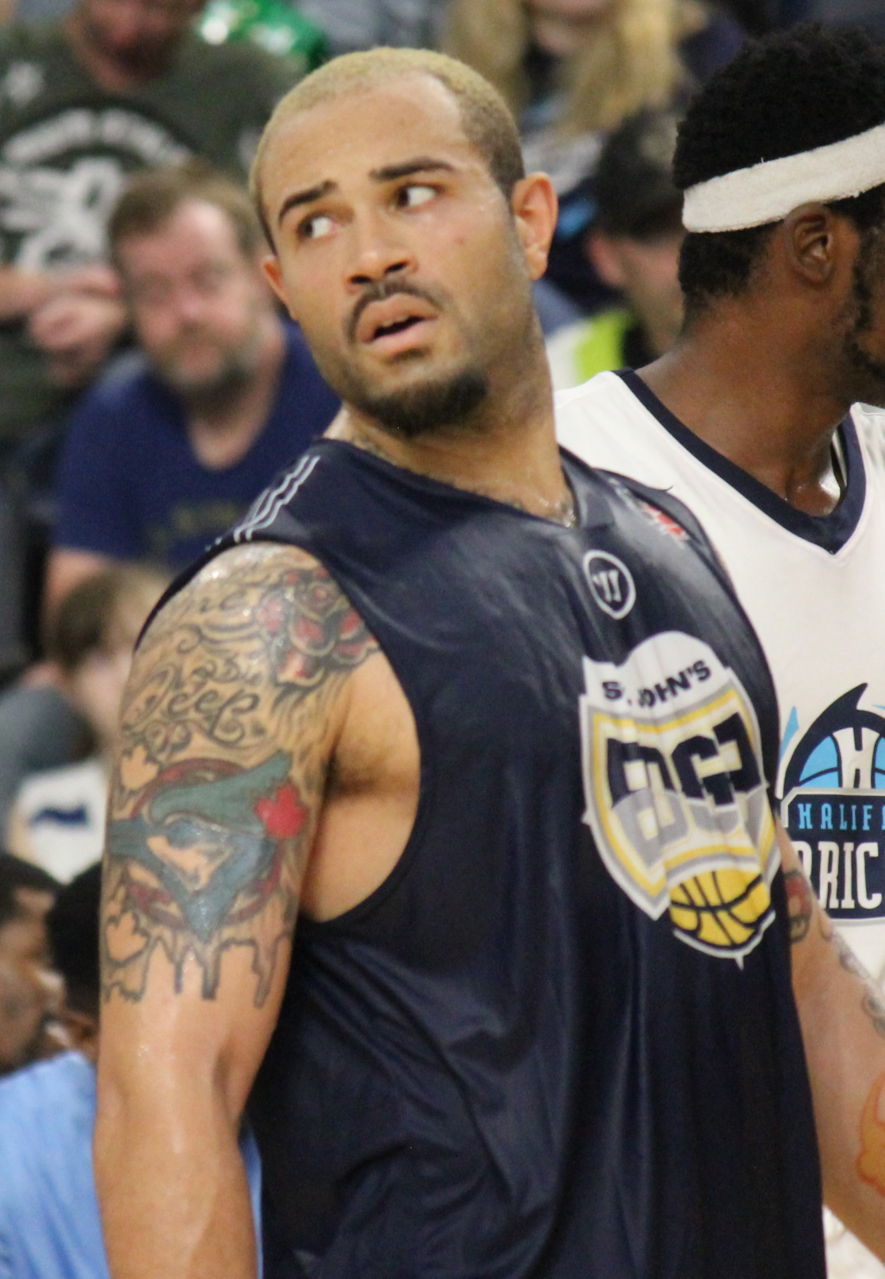 halifax